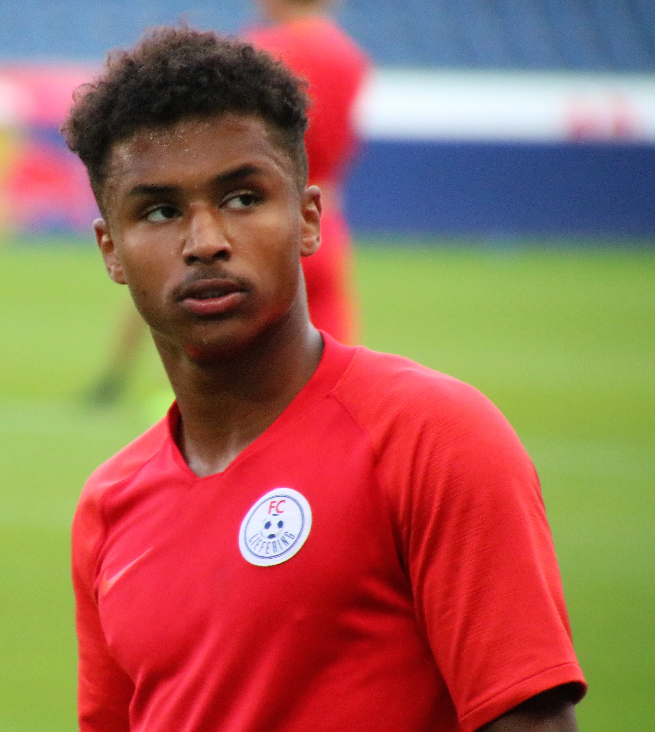 2nd league Austria league match